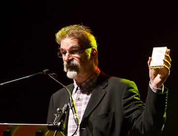 Ben Mandelson at the WOMEX Award Ceremony in 2013